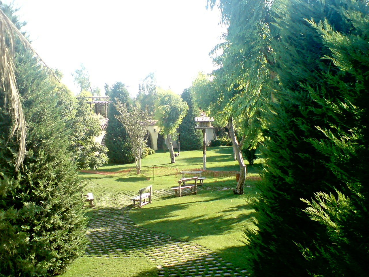 Hamsho Park in Qura Al-Assad, Qatana District, Syria